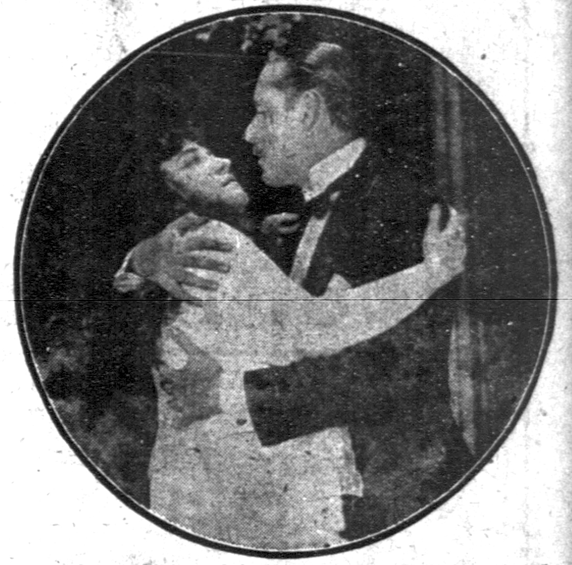 A publicity photo for the American film The Hungry Heart (1917) with Pauline Frederick.